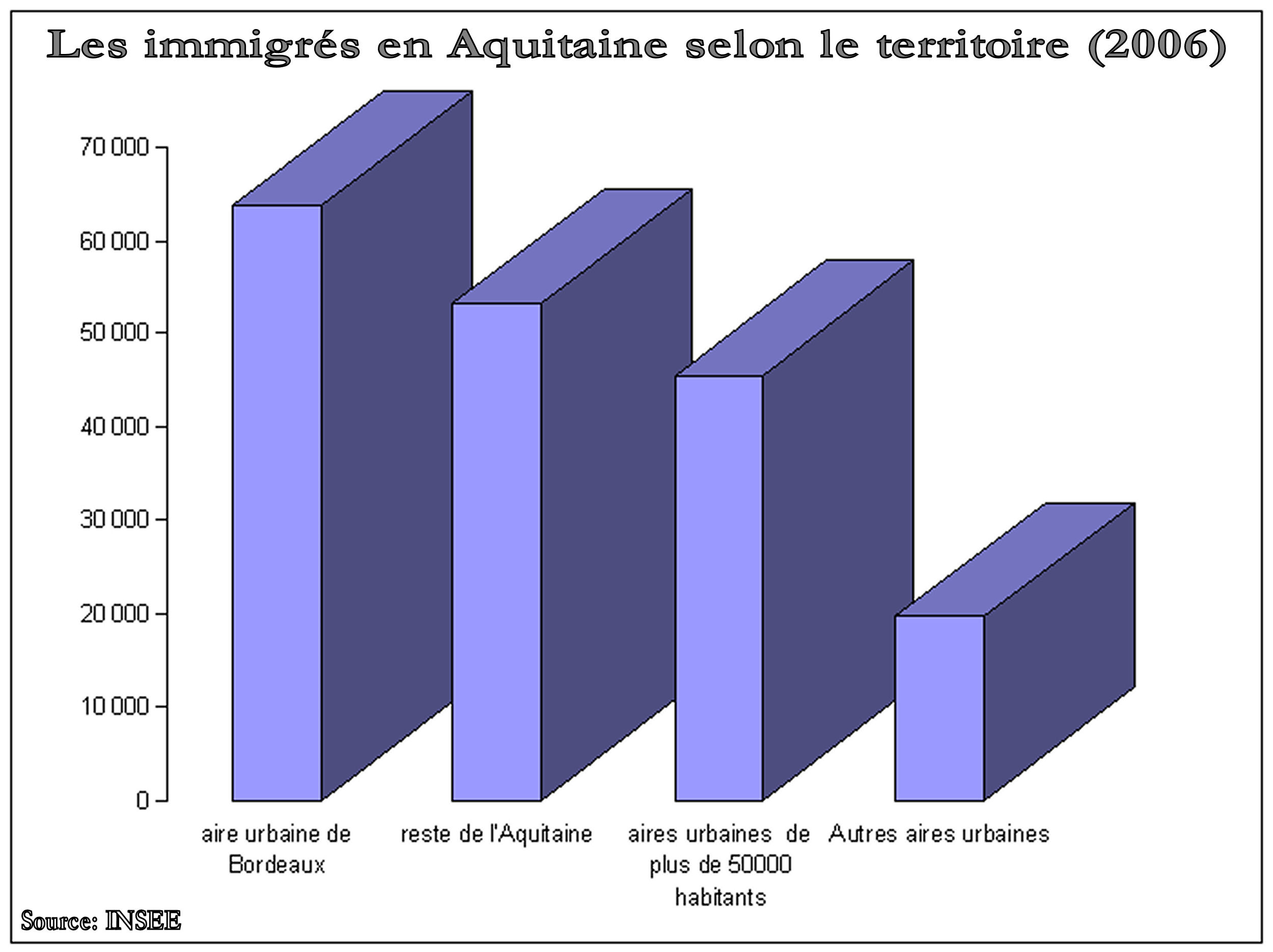 Migrants in Aquitaine for the area in 2006